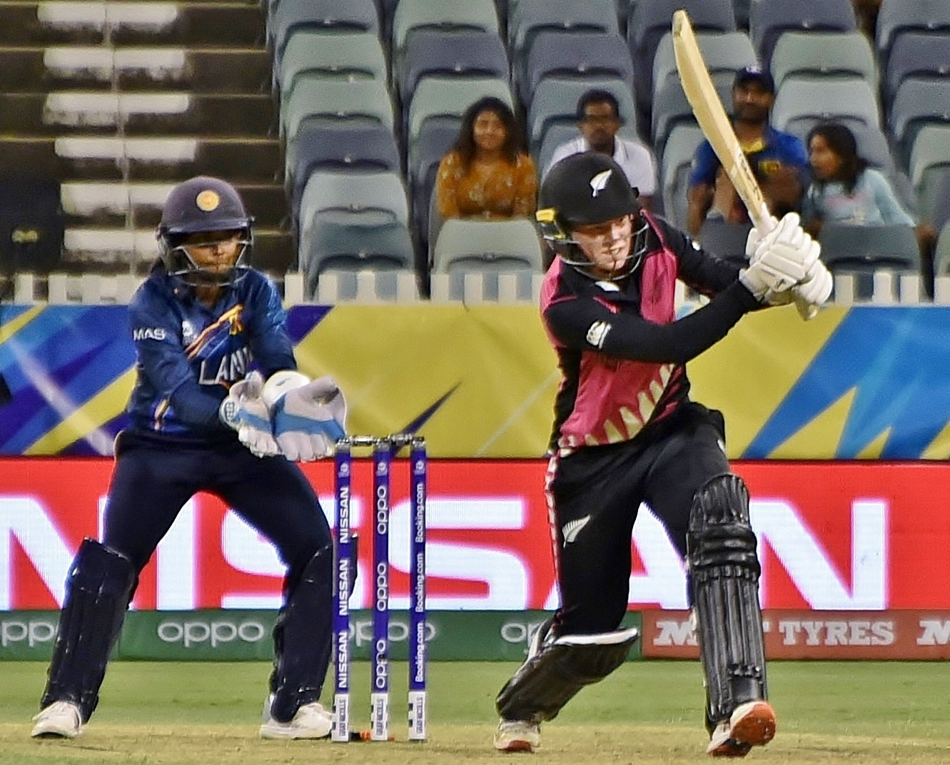 Maddy Green batting for New Zealand against Sri Lanka during their 2020 ICC Women's T20 World Cup match at the WACA Ground in Perth, Australia. The wicket-keeper is Anushka Sanjeewani.